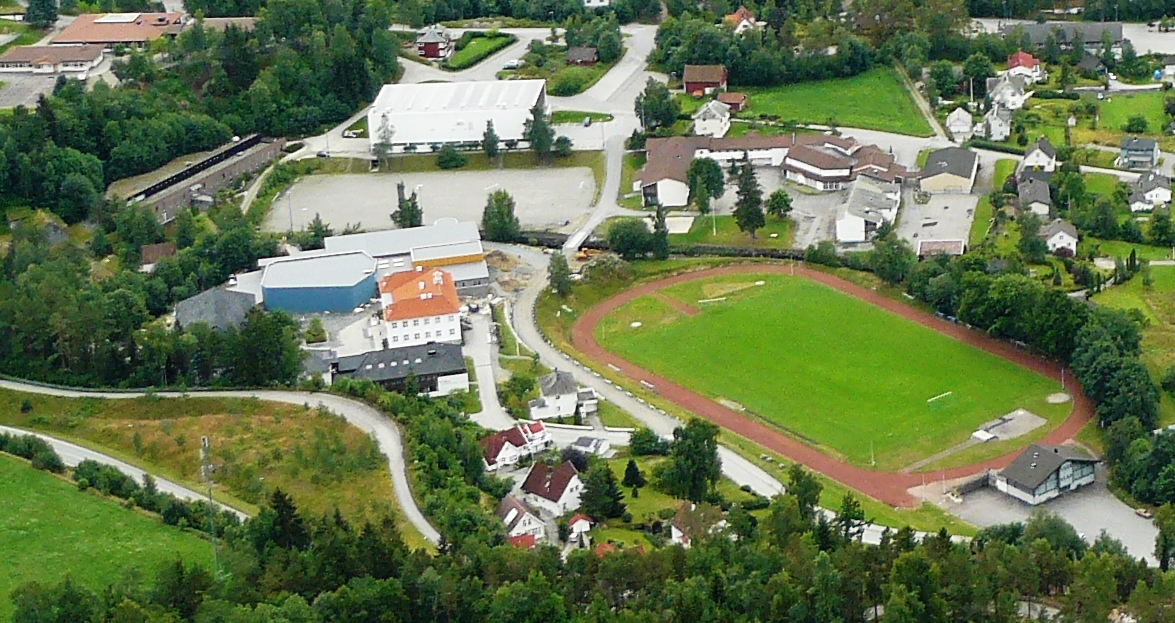 Sandane Stadium and Firda Upper Secondary Highschool (cropped)